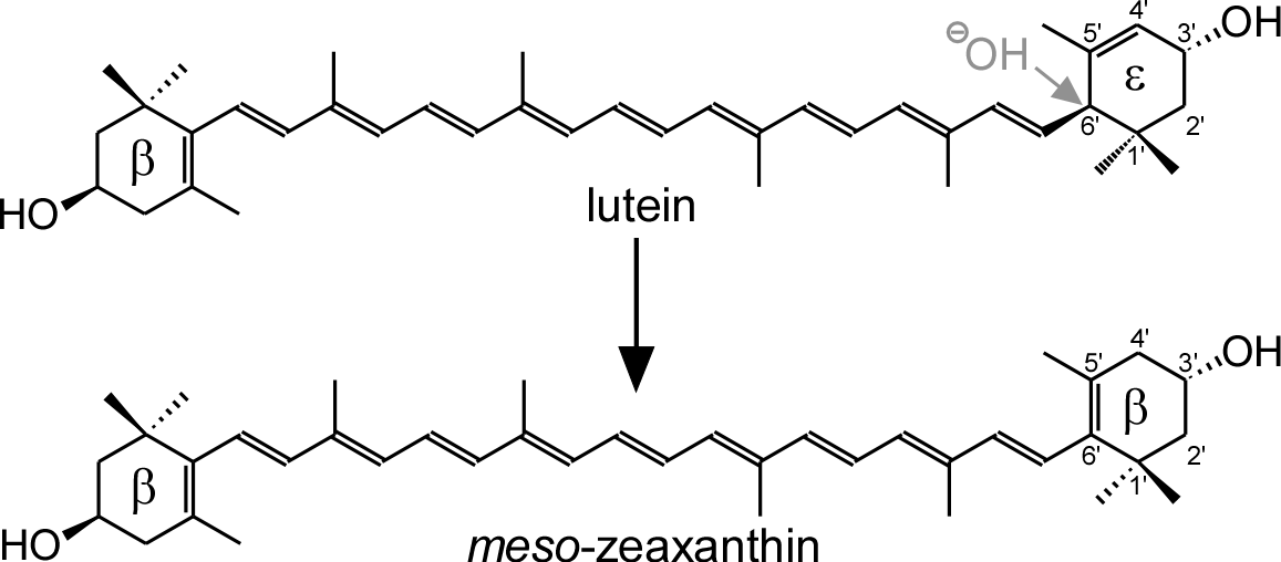 When a molecule is used commercially for human consumption, its safety has to be proven. First, it has to be shown that the molecule is innocuous for animal health, even when consumed at doses higher than the usual daily intake. The molecule can then be used in human studies.